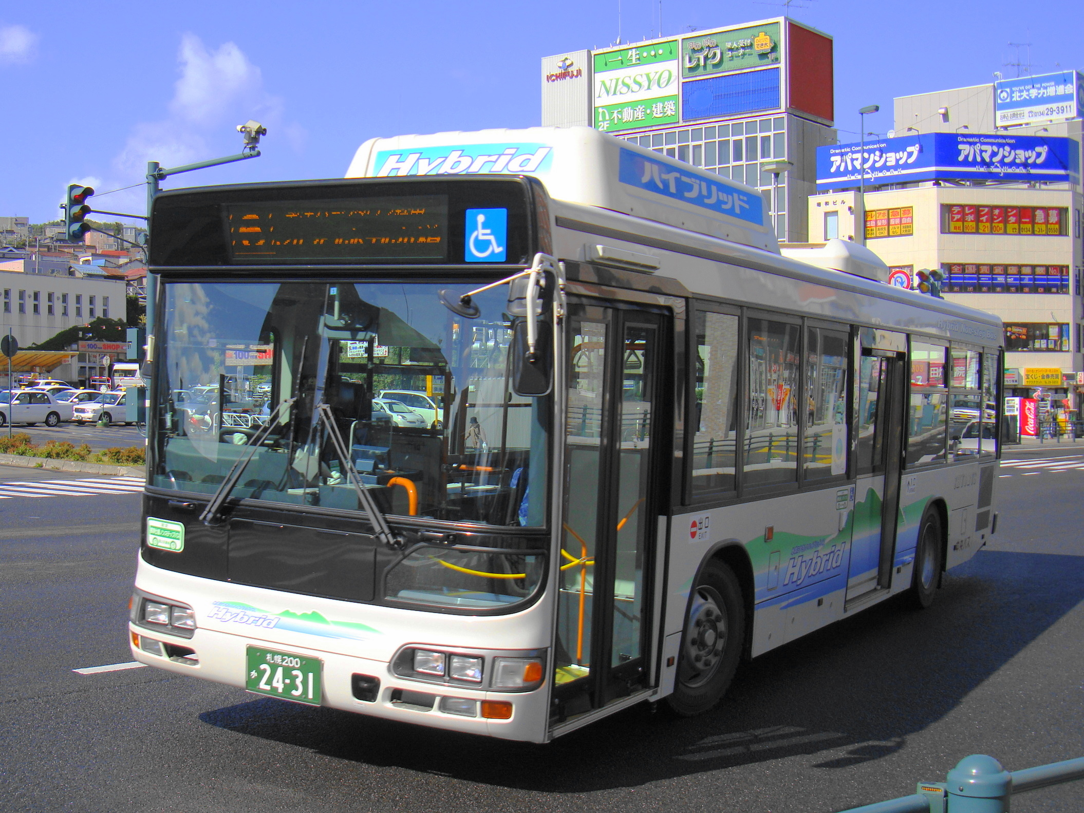 Otaru city line